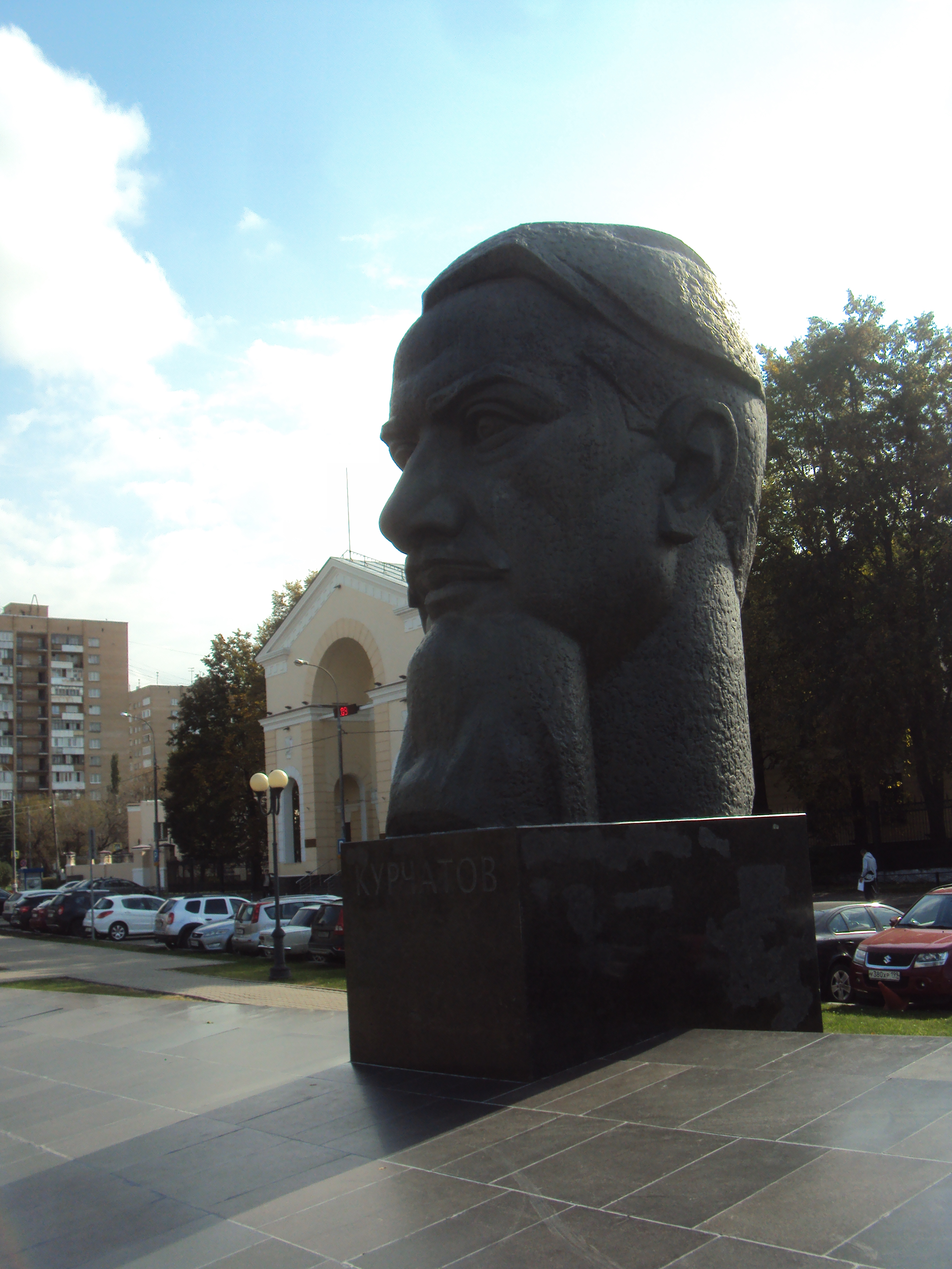 Monument To I. V. Kurchatov